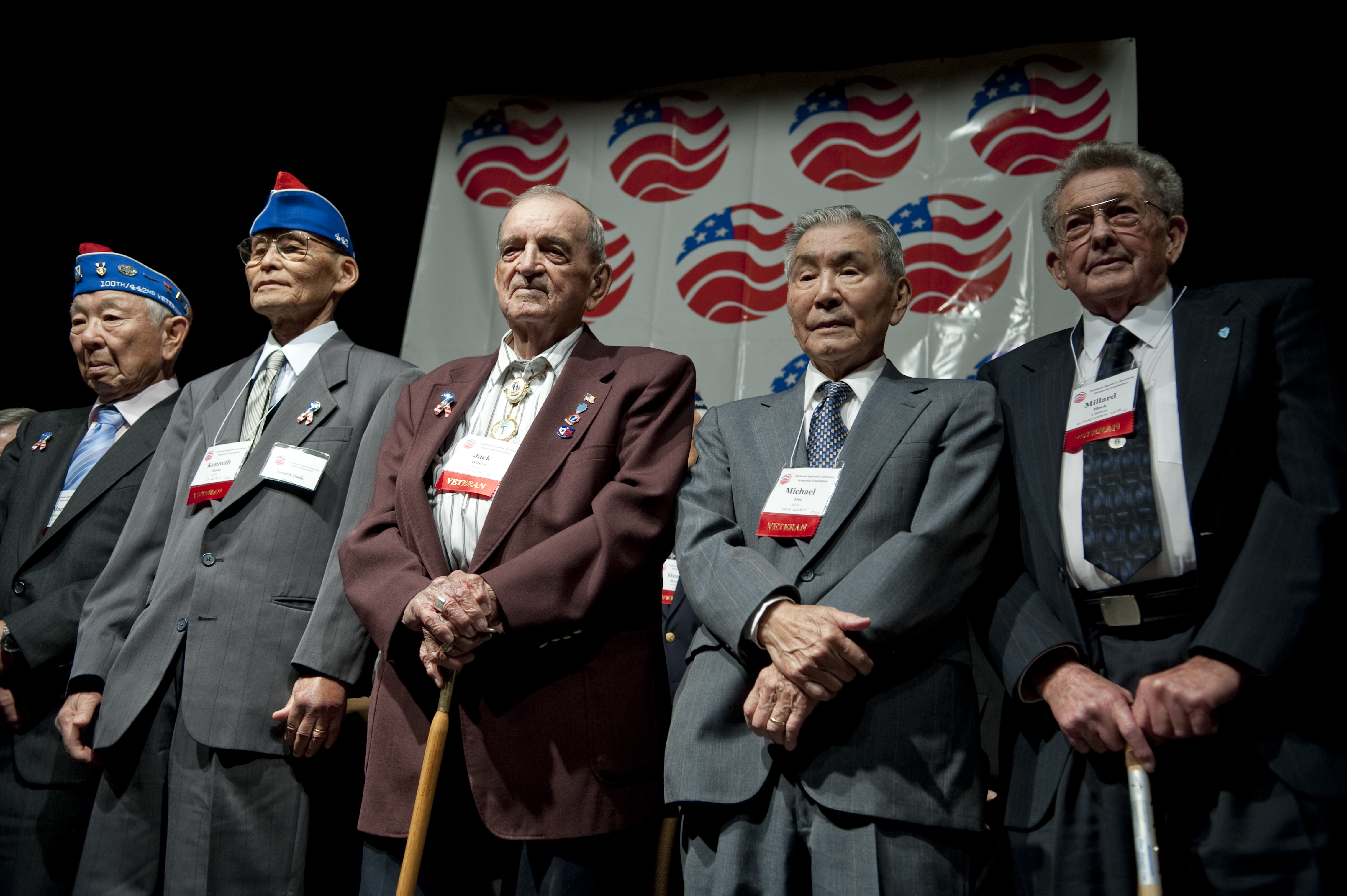 U.S. Army veterans from the 141st Infantry Regiment and the 442nd Regimental Combat Team stand during the 65th Anniversary Tribute dinner for the veterans of the Rescue of the Lost Battalion in Houston, Texas, Nov. 1, 2009. The dinner commemorates a battle in 1944, when the 141st was surrounded by Nazi forces in the Vosges Mountains of Northern France. After several failed attempts to reach the unit, the 442nd, a segregated unit comprised of mostly Japanese-Americans, fought for five days to break through Nazi lines and reach the battalion, rescuing 230 men. (DoD photo by Mass Communication Specialist 1st Class Chad J. McNeeley, U.S. Navy/Released)